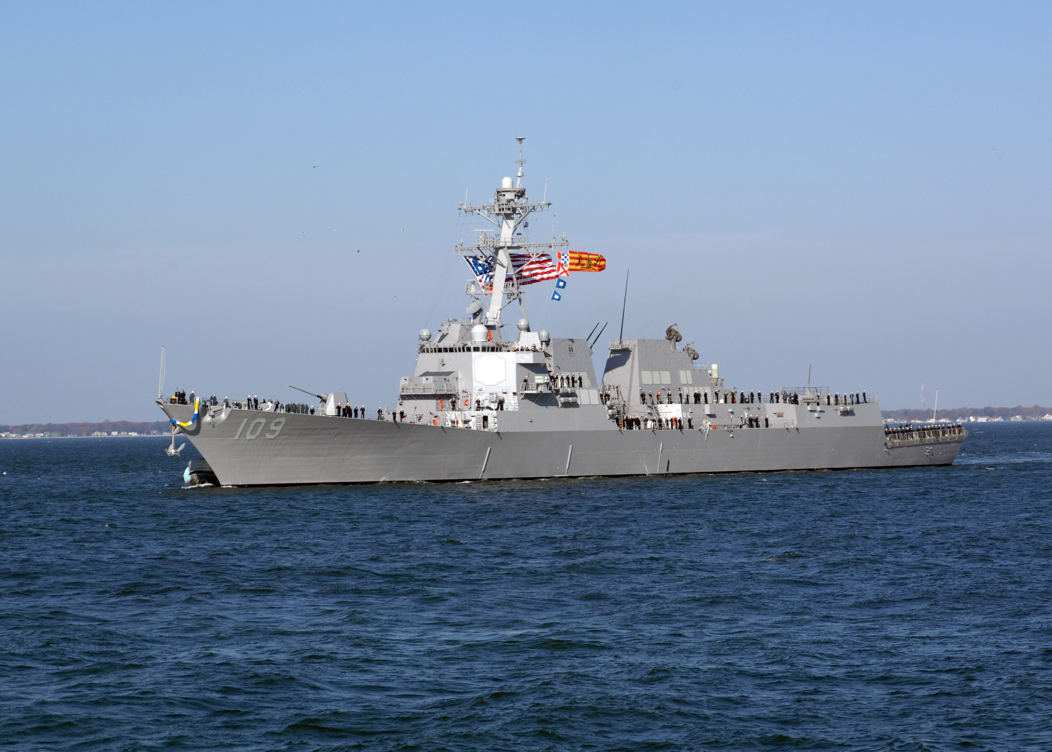 NORFOLK (Nov. 23, 2010) The newly commissioned guided-missile destroyer USS Jason Dunham (DDG 109) arrives to its new homeport of Naval Station Norfolk. The ship is named after U.S. Marine Cpl. Jason Dunham who was mortally wounded by insurgents in Iraq in April 2004 and was posthumously awarded the Medal of Honor January 11, 2007. (U.S. Navy photo by Mass Communication Specialist 1st Class Julie R. Matyascik/Released)